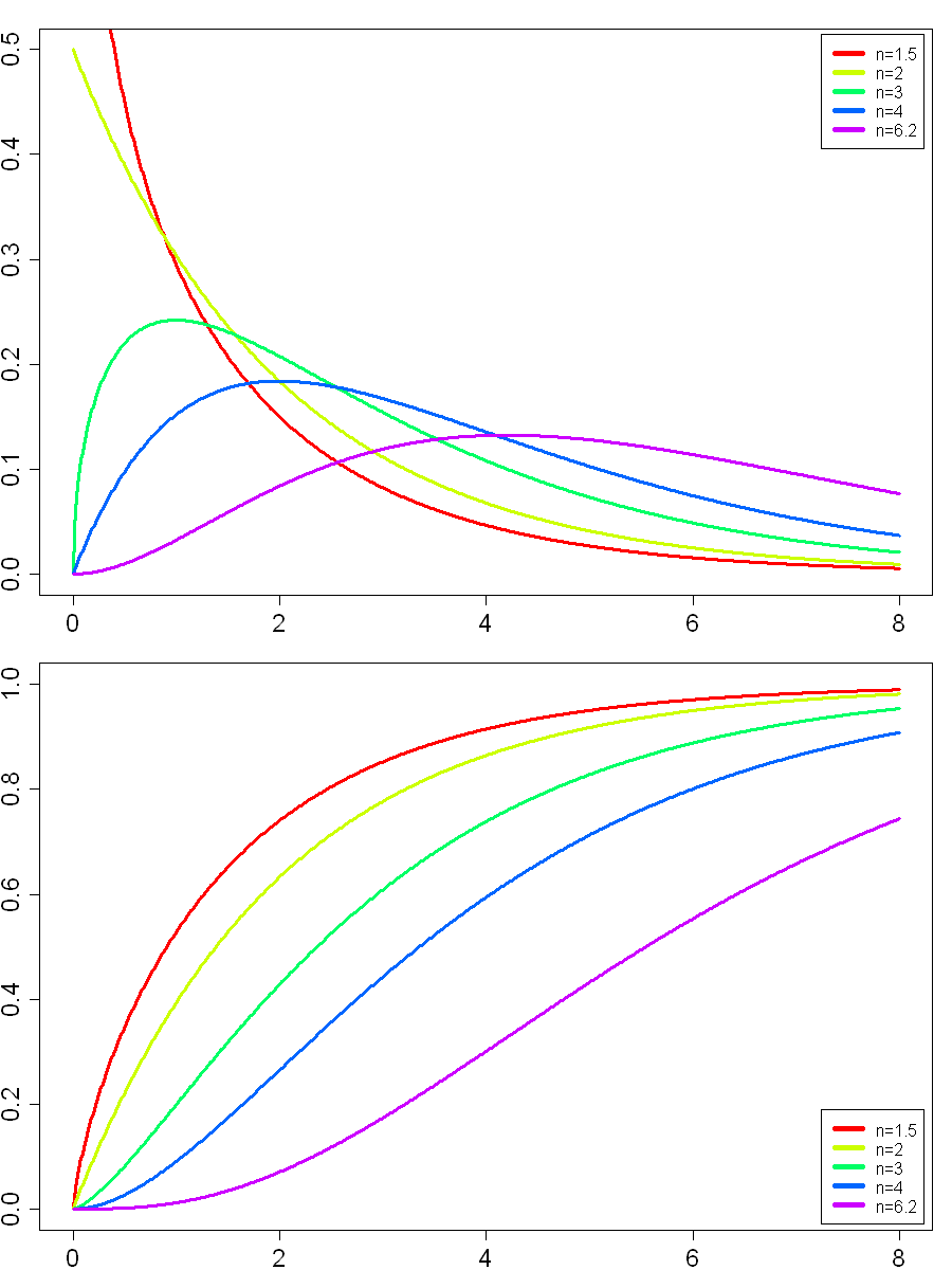 densities and cummulative distribution functions of chi squared distributed random variables with different degrees of freedom. note that non-integer degrees of freedom are as well possible. and for low df the density does not tend to zero for little x.